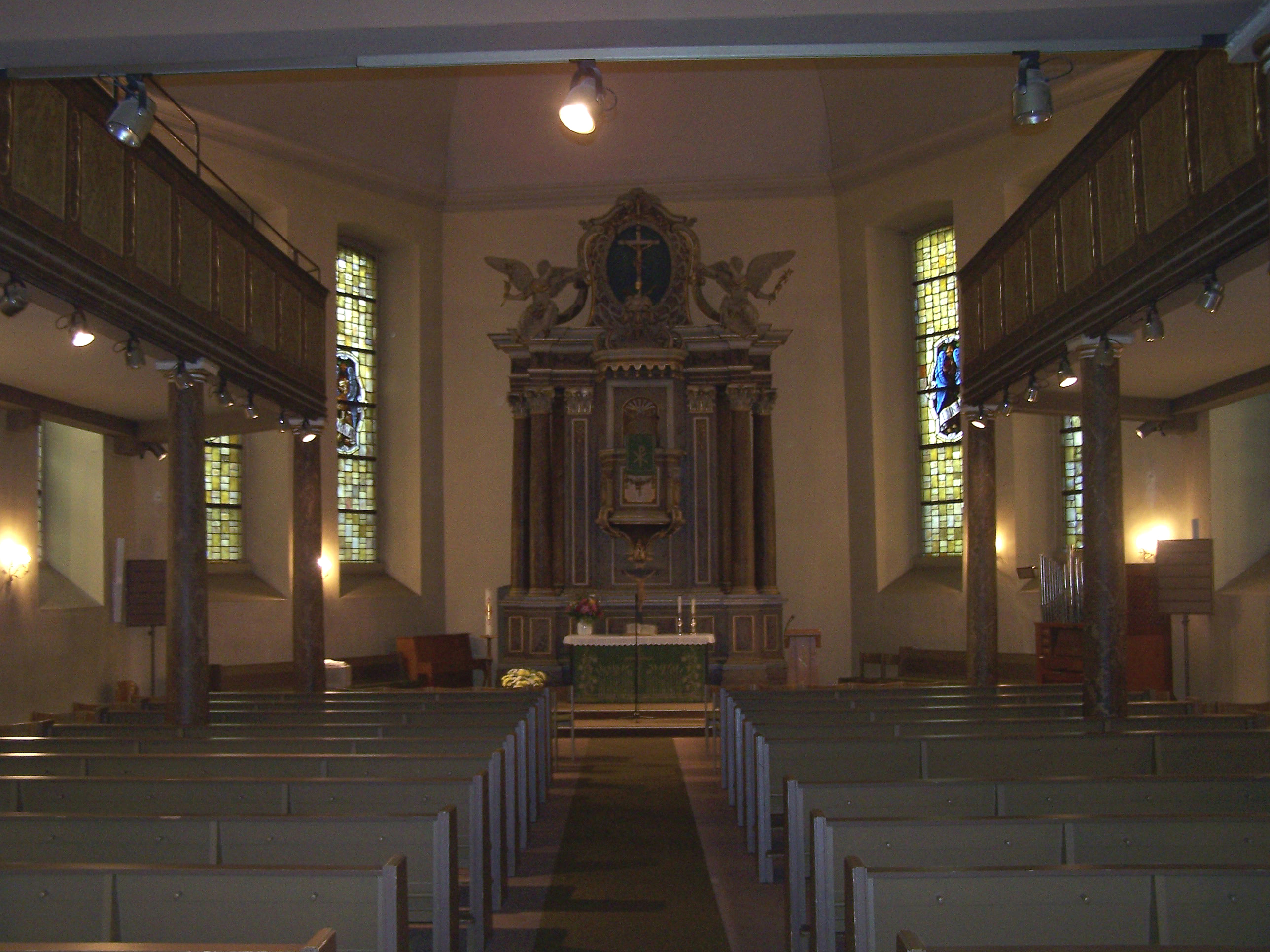 Interior of the Church of Johannes in Frankfurt am Main-Bornheim